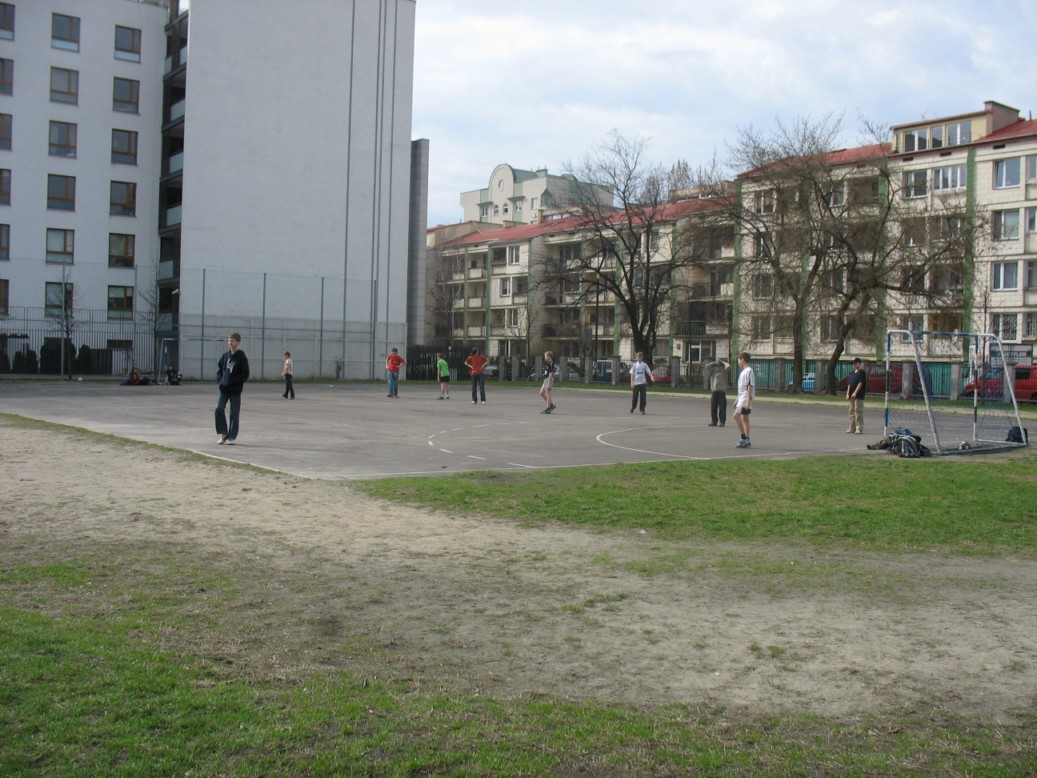 playing field